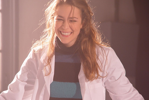 Spanish actress Silvia Abascal.